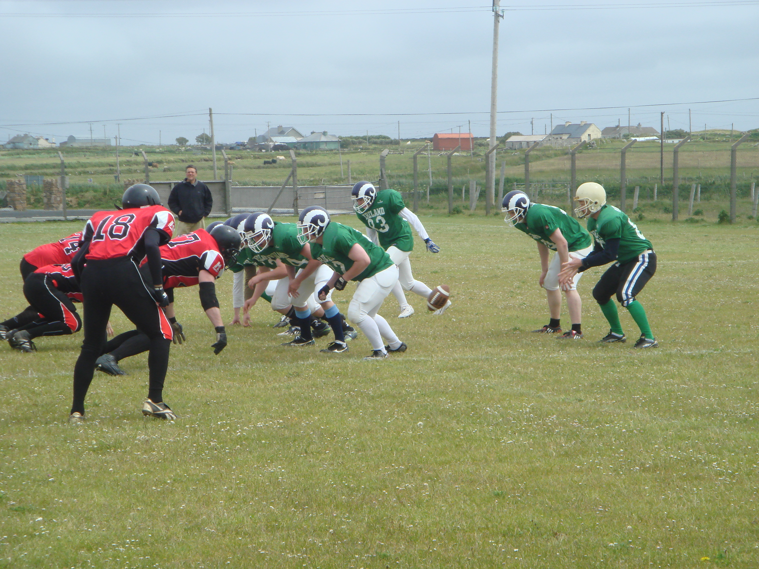 Erris Rams facing off against Trinity College